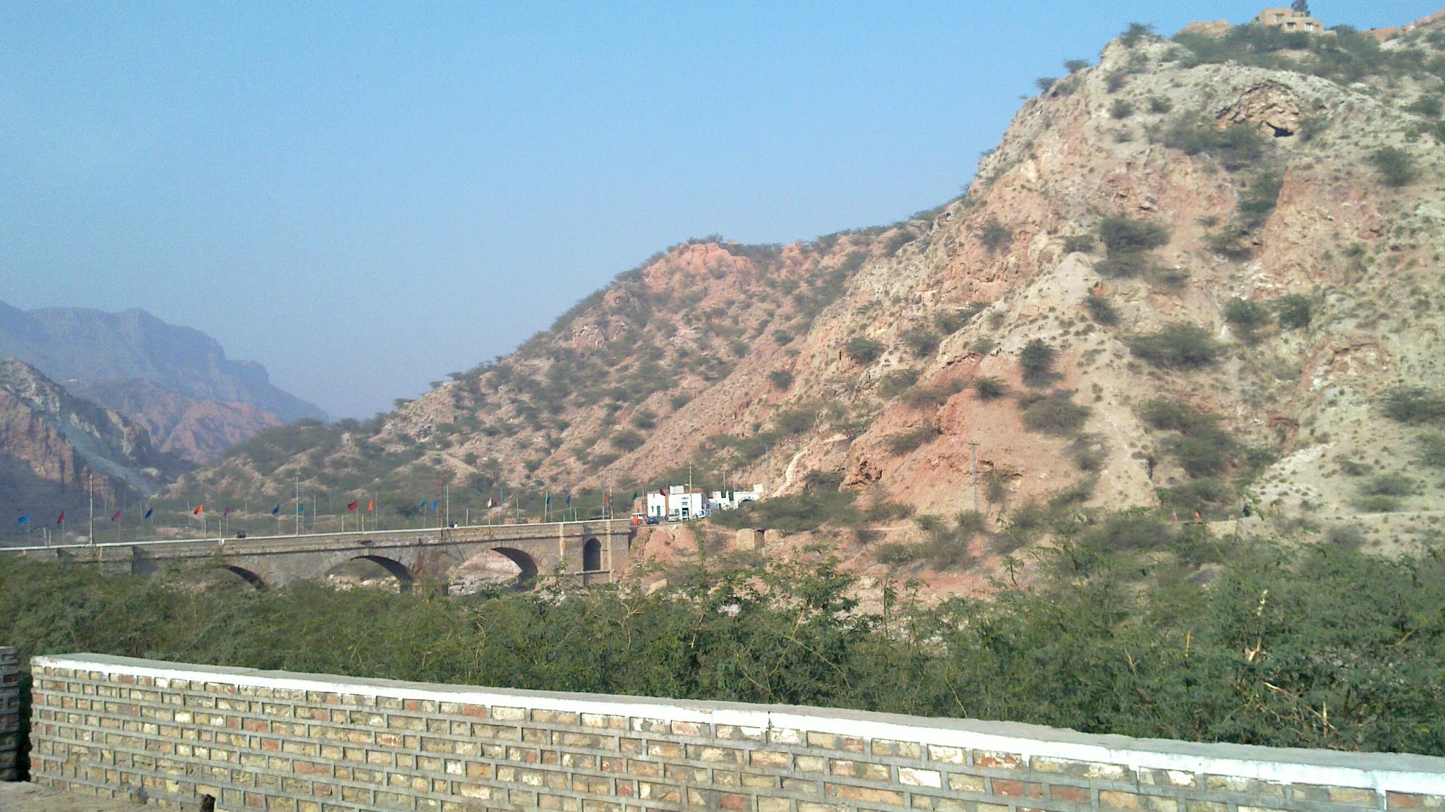 Visit to Khewra Salt Mines in Pakistan.